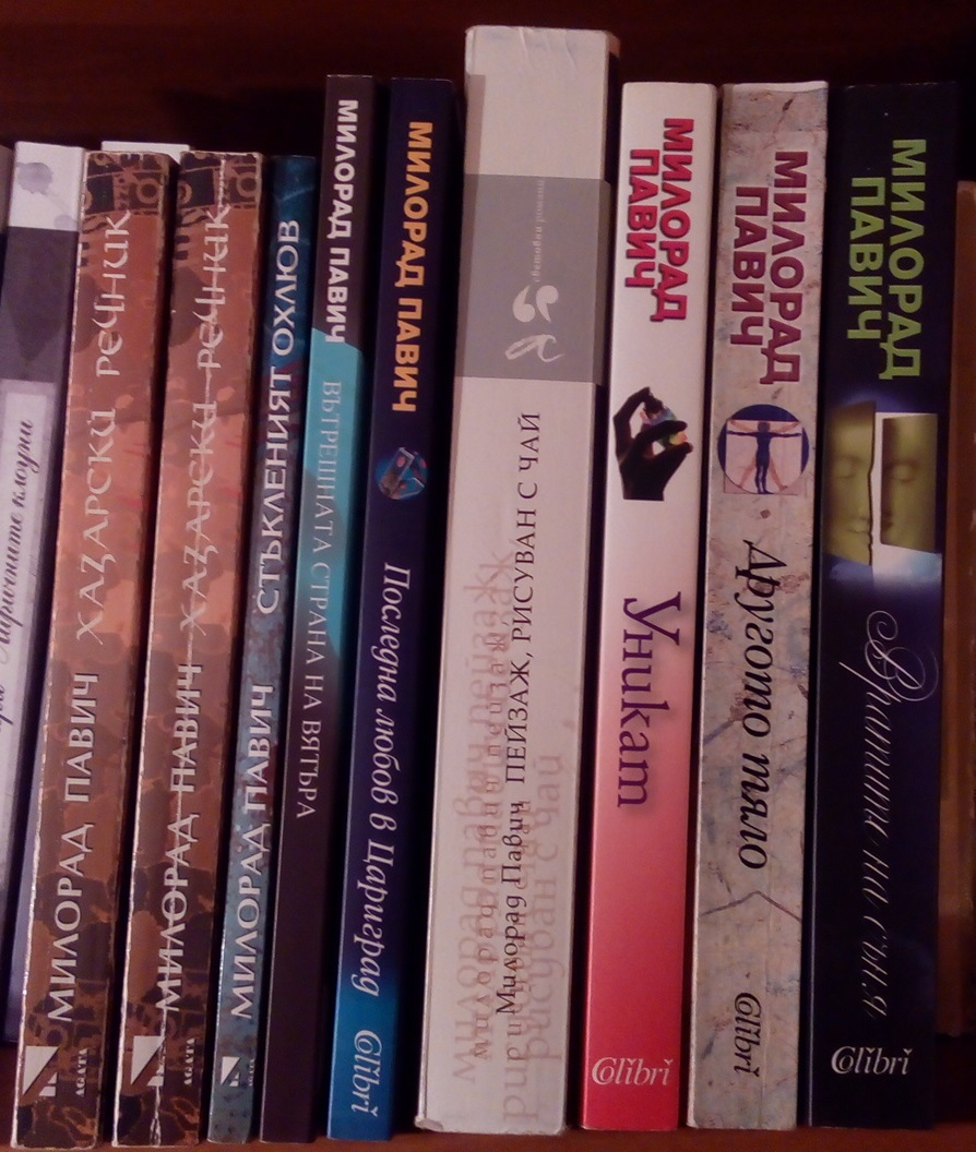 Books by Milorad Pavic, translated and published in Bulgarian.